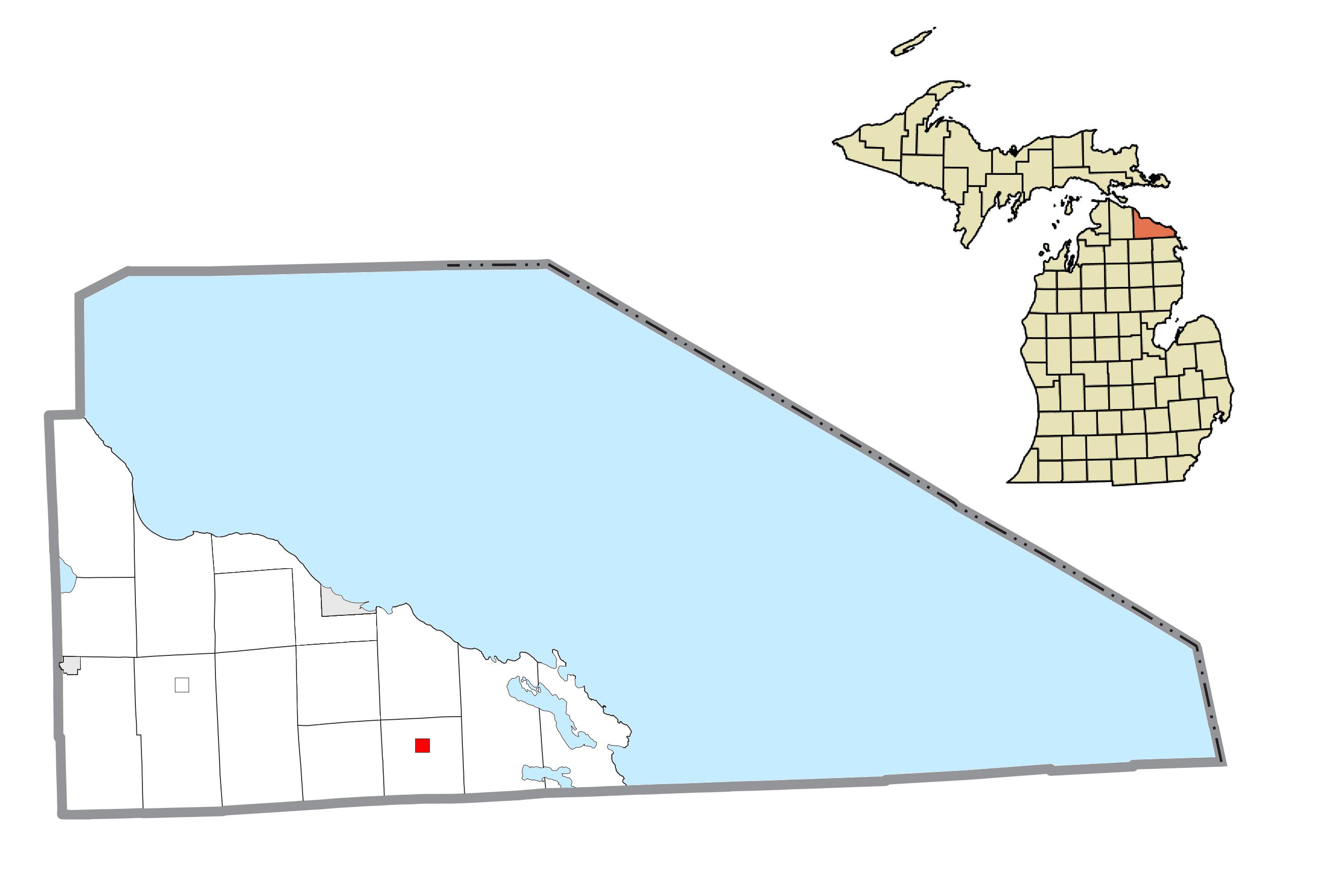 Posen, MI